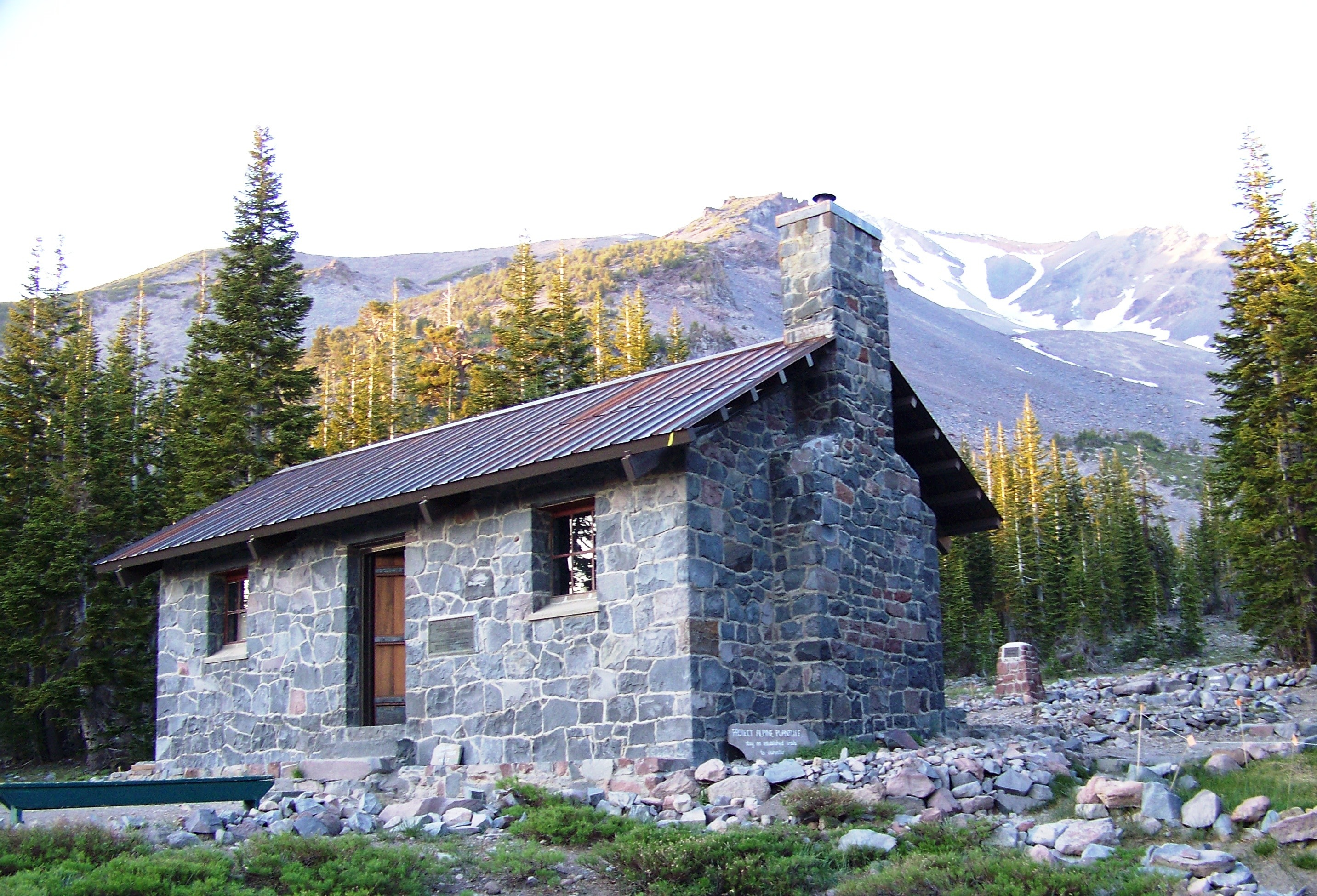 This is a photograph of the Shasta Alpine Lodge located at Horse Camp owned by the Sierra Club Foundation on Mount Shasta, California.